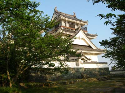 Torii commemoration museum in Naruto, Japan